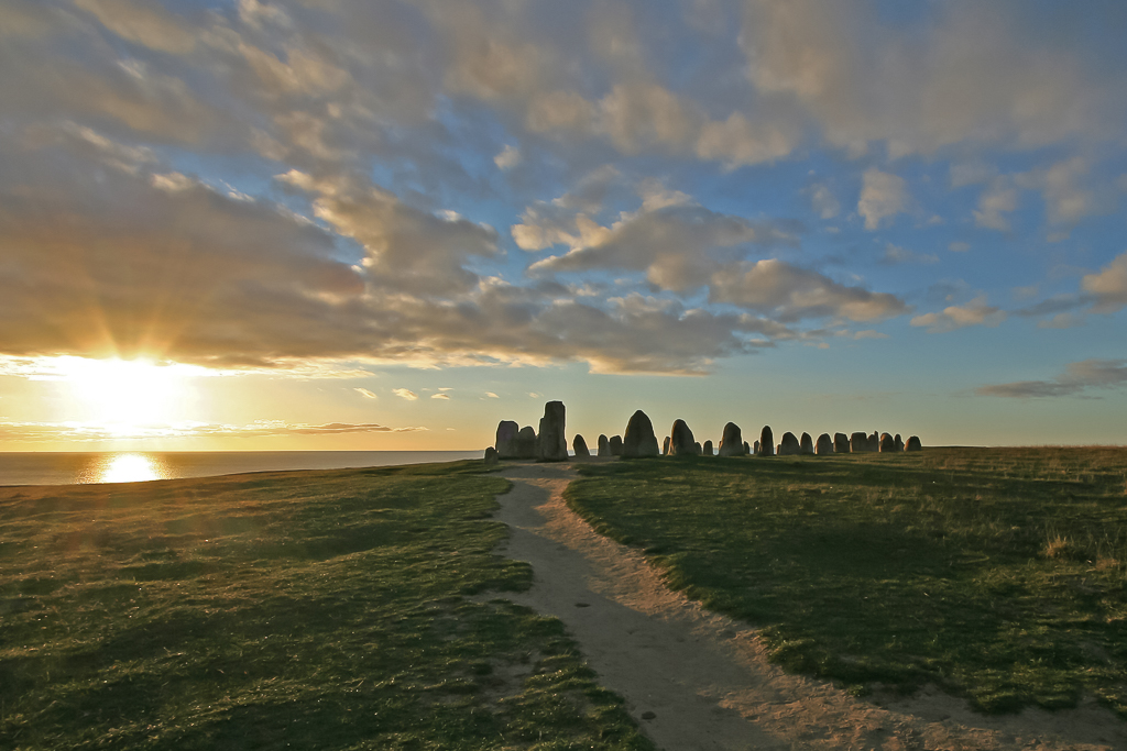 The ship barrow Ale's Stones at Kåseberga, Sweden at dusk